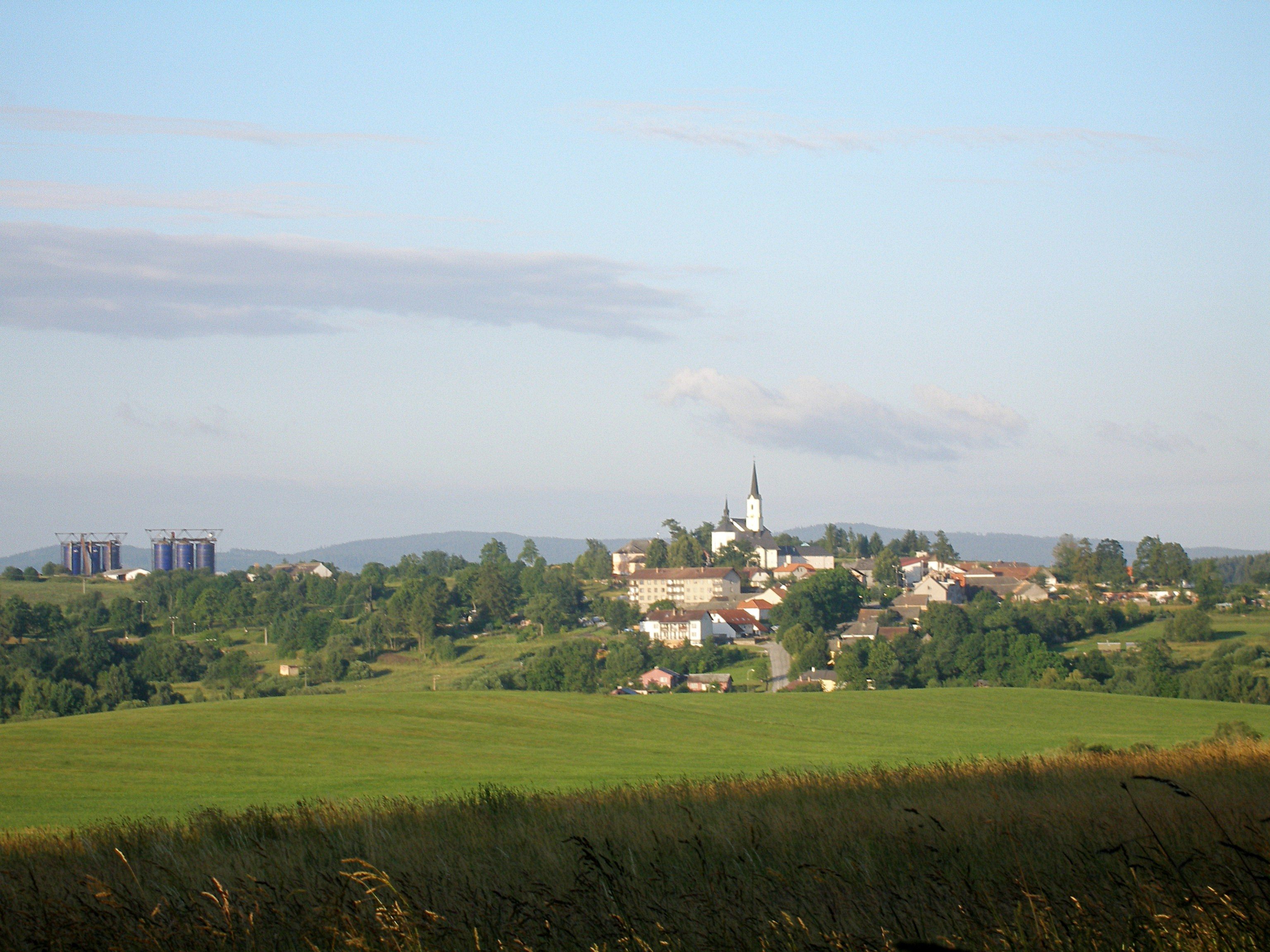 Světlík (germ. Kirchschlag, Český Krumlov District) - the general view from Pasovary (Passern)